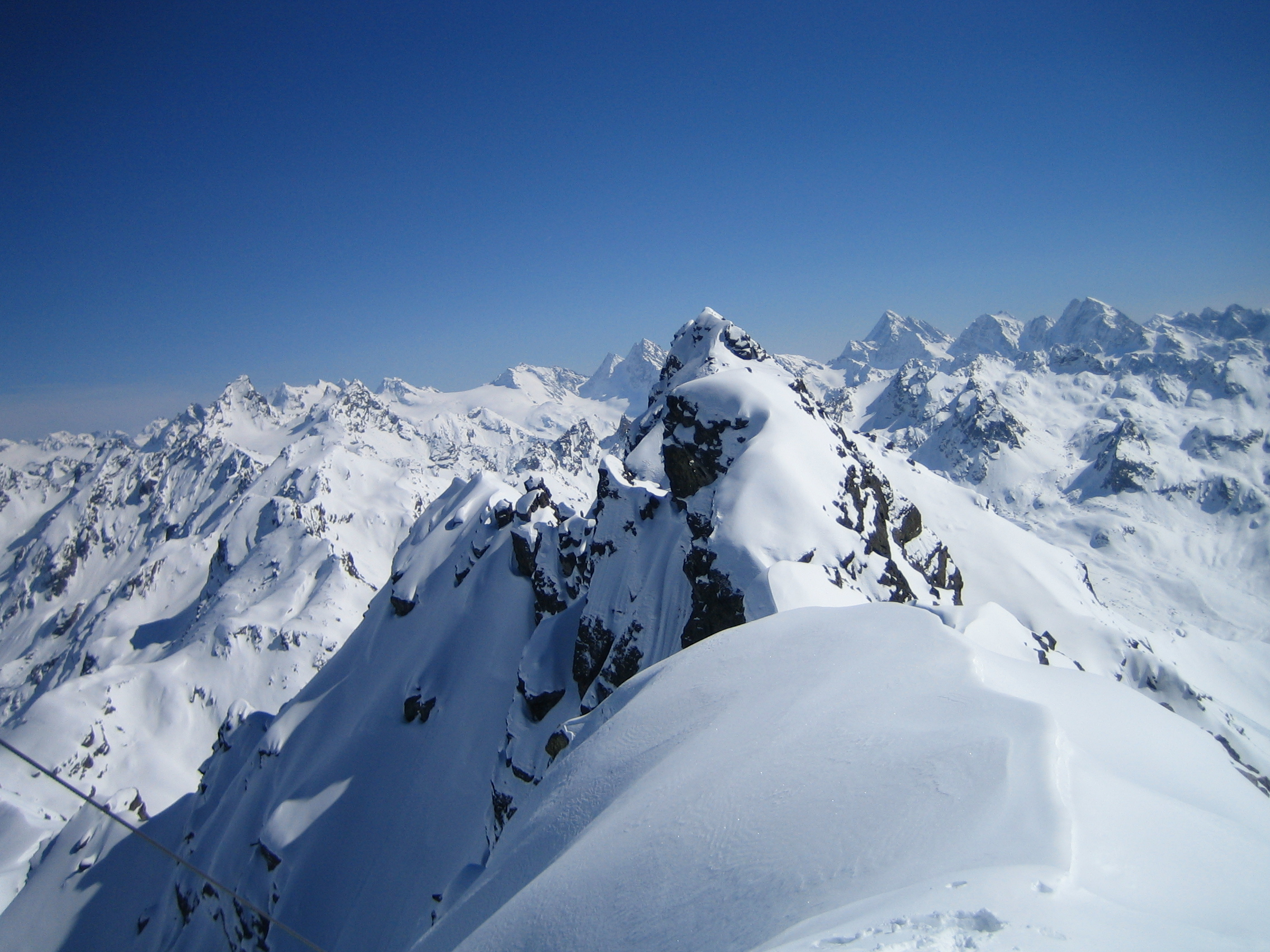 Picture taken on Rotbühelspitze looking towards Silvretta range.